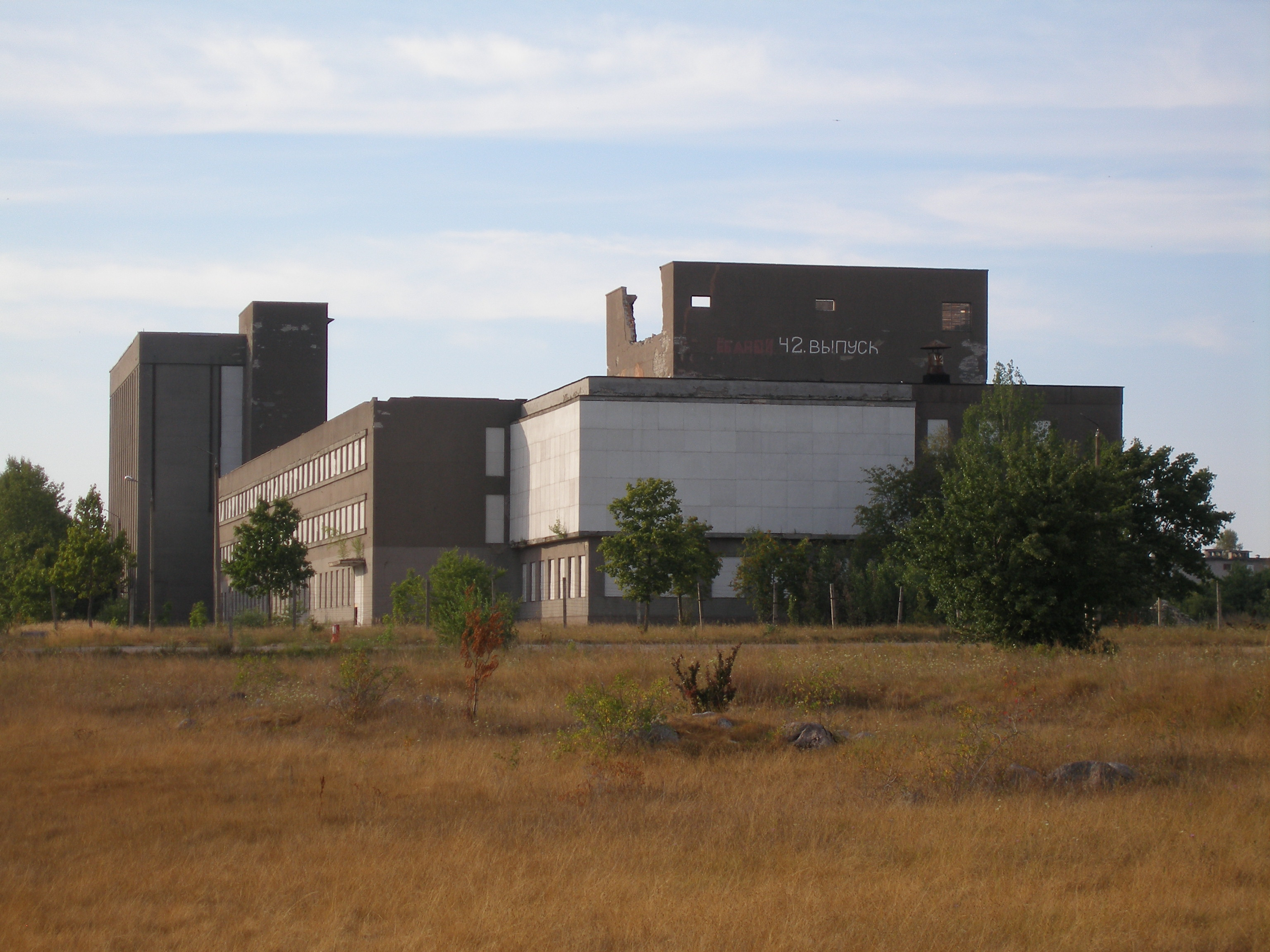 A former Soviet military building (the so-called Pentagon) in Paldiski in 2006. Building was demolished in 2007.